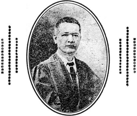 Image from the book "Mga Dakilang Pilipino" by Jose N. Sevilla